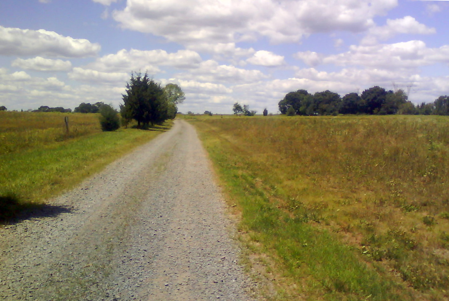 Negri-Nepote Temperate Grasslands in New Jersey.